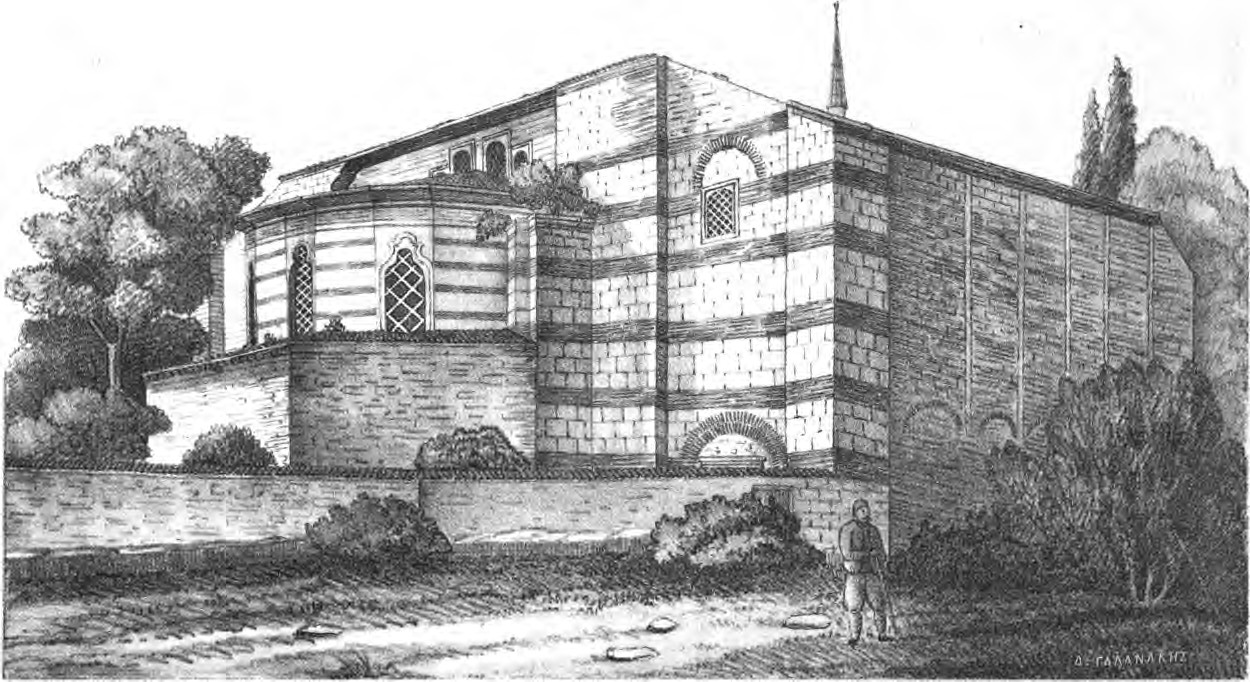 Byzantinai meletai topographikai (1877) Author: Paspatēs, Alexandros Geōrgiou, 1814-1891. [from old catalog] Subject: Inscriptions, Greek Year: 1877 Possible copyright status: NOT_IN_COPYRIGHT Language: English Digitizing sponsor: Google Book contributor: Oxford University Collection: europeanlibraries